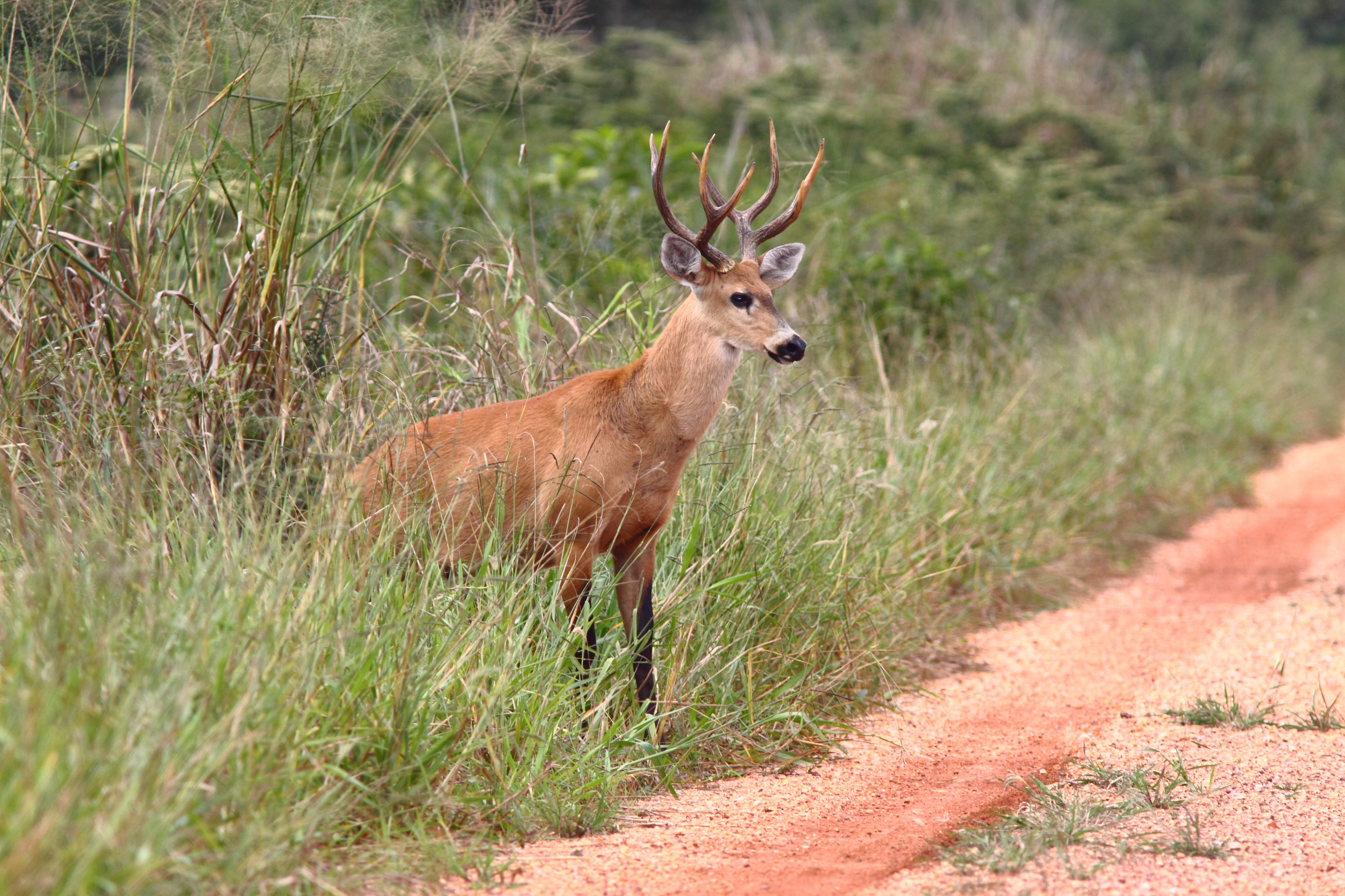 Marsh deer in a road, near Pantanal de Mirand, Mato Grosso do Sul, Brazil.